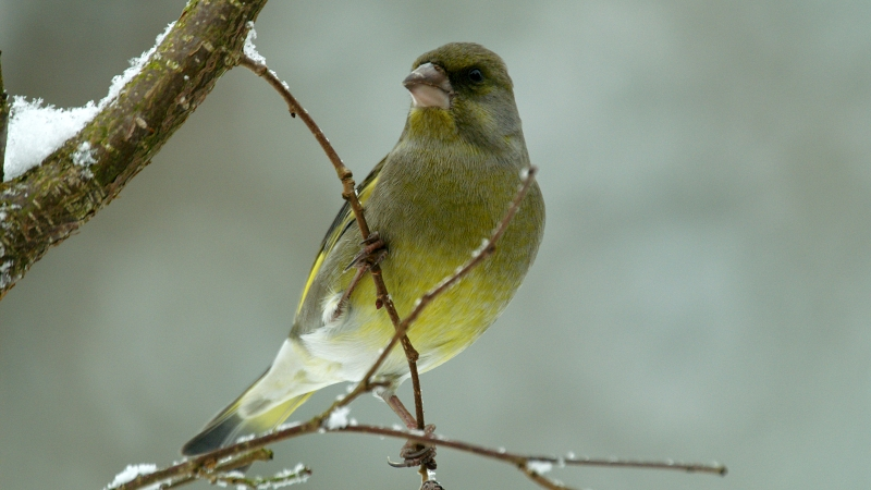 Greenfinch (Carduelis chloris)